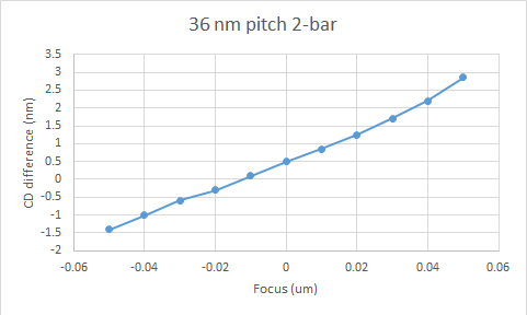 A 36 nm pitch horizontal two-bar structure exhibits significant CD difference (between upper and lower bar as a function of focus. This has been attributed to the shadowing effect of the EUV illumination. Ref.: V. Philipsen et al., Proc. SPIE vol. 10143, 1014310 (2017).